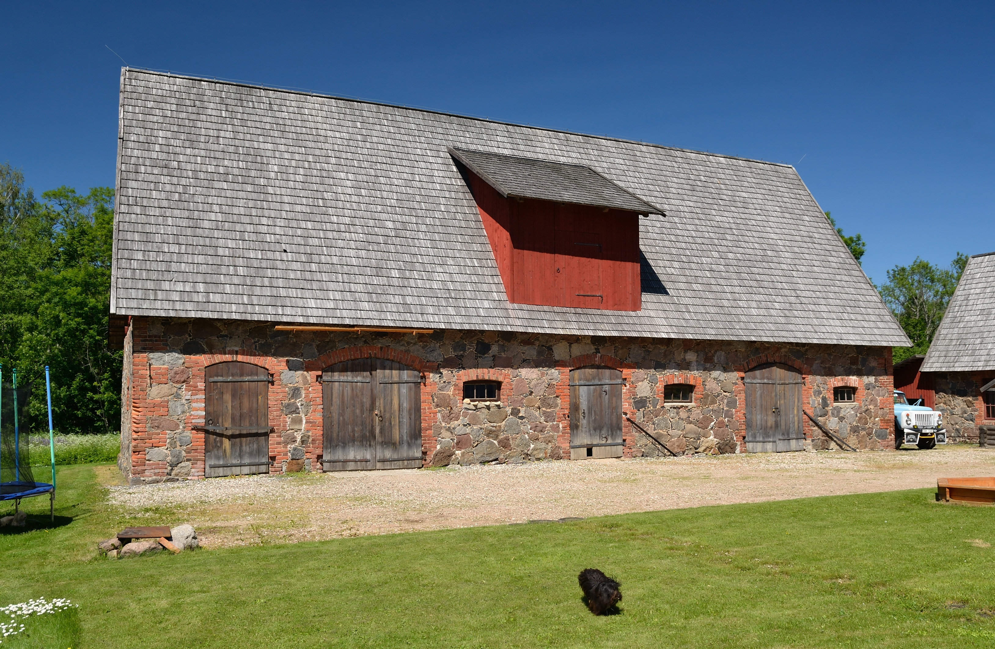 Saburi (Rupsi) huntingmanor granary